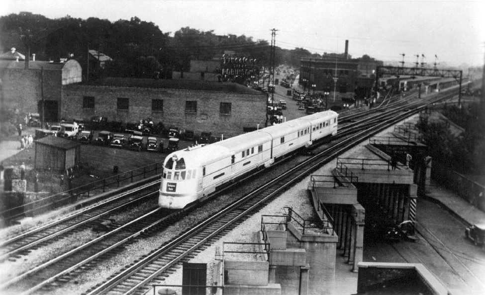 Photo of the Pioneer Zephyr as it sped through Aurora, Illinois on its way to Chicago's Union Station in the historic "Dawn to Dusk Dash" from Denver to Chicago. The train left Denver at 7:04 AM and arrived in Chicago at 8:09 PM. The photo shows a gathering of people who had come to watch the train go by; the Aurora street lights have come on and many of the cars in the photo have their headlights on, indicating dark was beginning to fall.